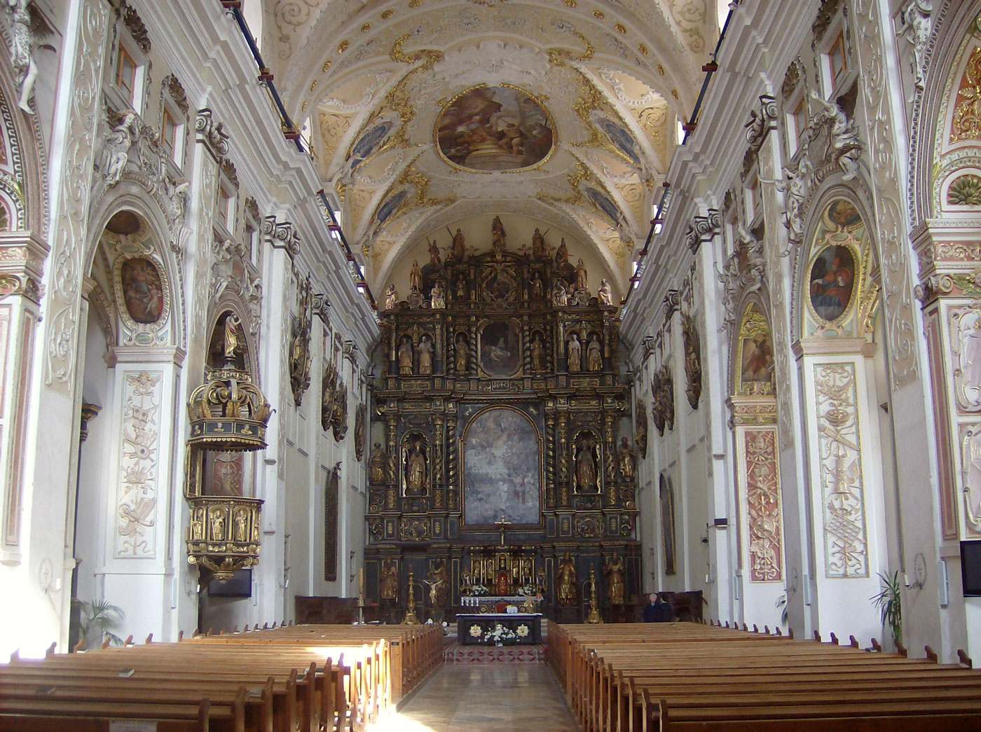 Cathedral of St. John the Baptist in Trnava